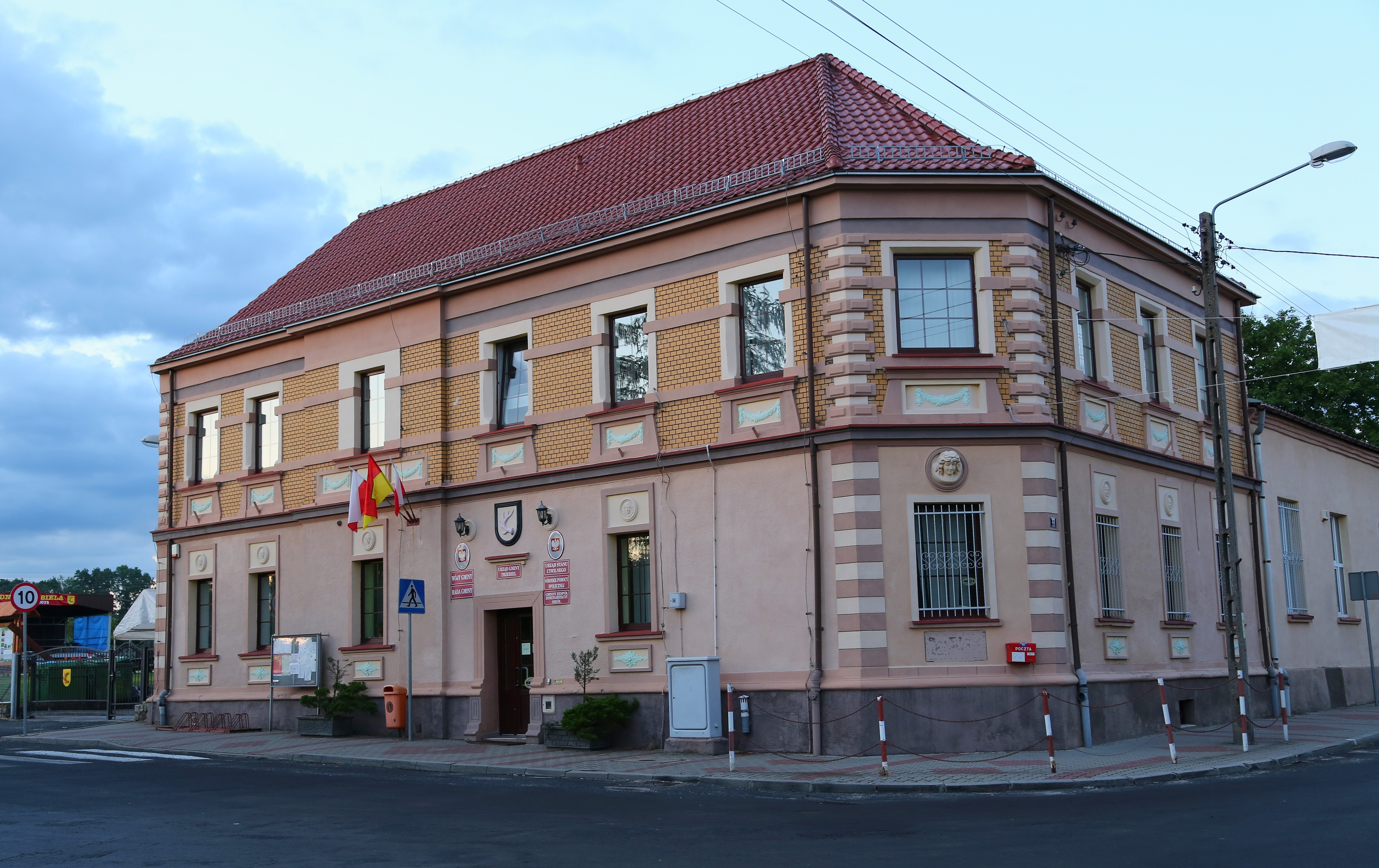 Gmina Trzebiel offices in Trzebiel, Gmina Trzebiel, Lubusz Voivodeship, Poland.